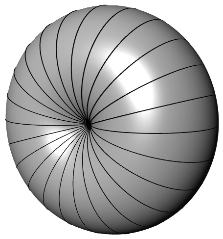 Photograph of a painting with the consent of the author.